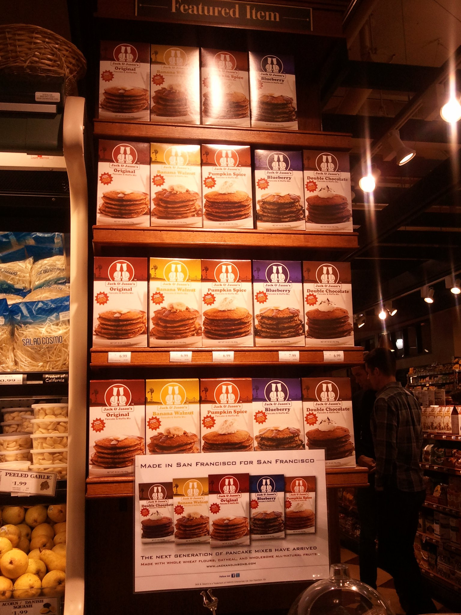 Jack & Jason's base product line endcap display at Falletti Foods.